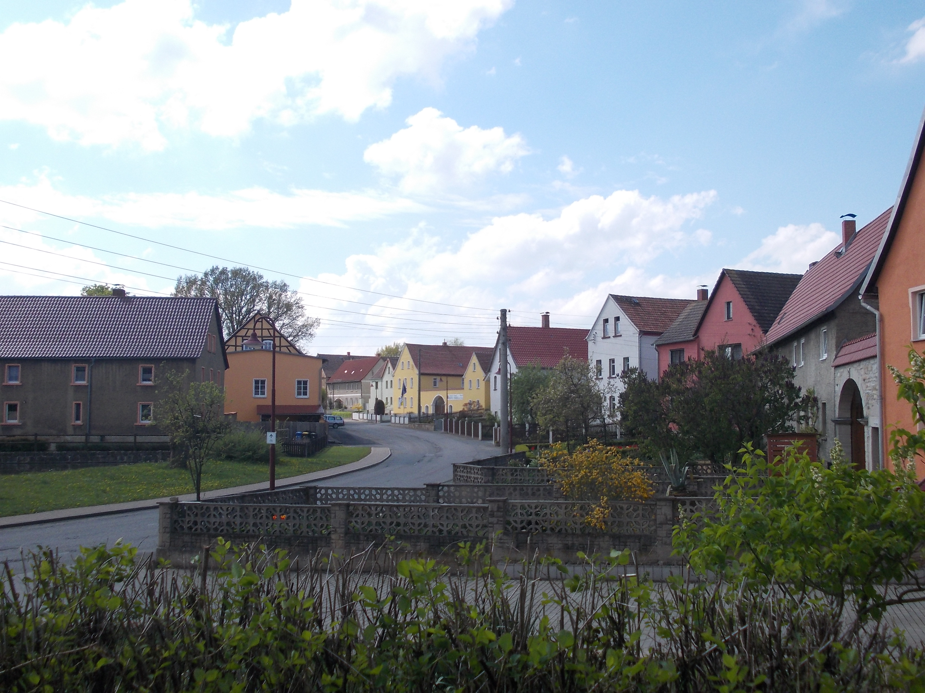 Dorfstrasse in Königshofen (Heideland, district: Saale-Holzland-Kreis, Thuringia)